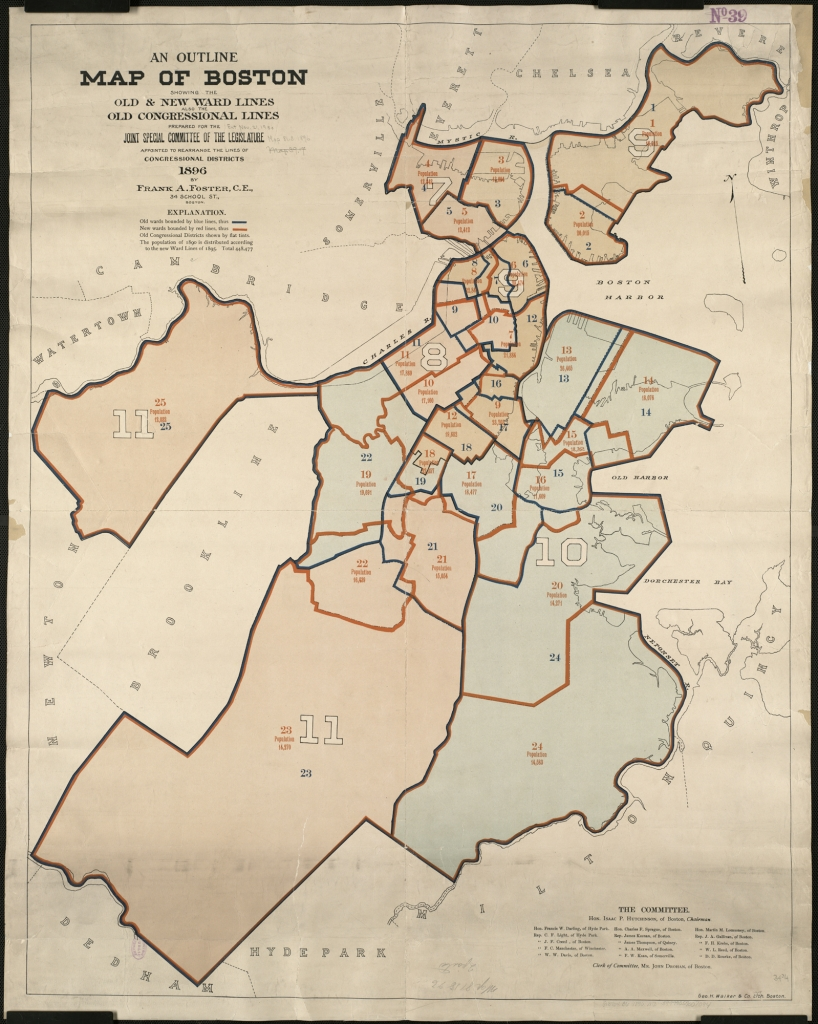 Zoom into this map at . Author: Massachusetts. General Court. Joint Special Committee on Congressional Redistricting Date: 1896 Location: Boston (Mass.) Dimension 89x69cm Scale: Scale not given Call Number: G3764.B6 1896 .M3